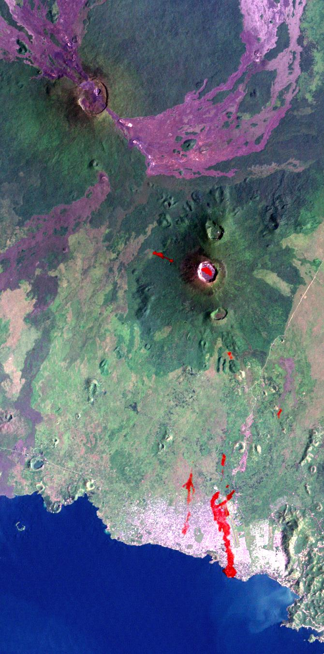 Depiction of the Nyiragongo and Nyamuragira volcanoes, based on data from the Shuttle Radar Topography Mission, Advanced Spaceborne Thermal Emission and Reflection Radiometer, or Aster, and Landsat. Some lava flows (not all) from the 2002-01-17 eruption are shown in red.